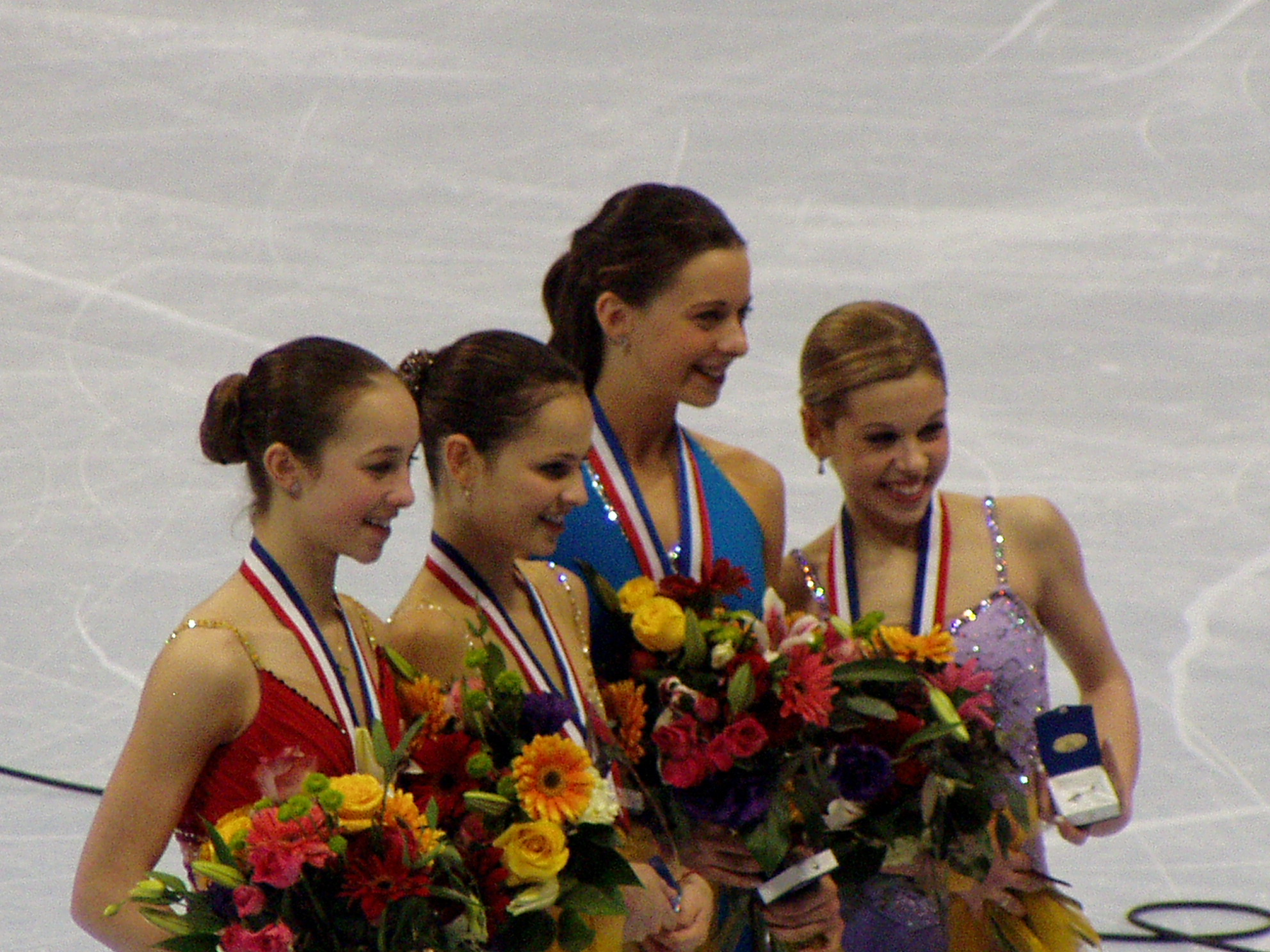 This is a picture of the medalists at the 2006 U.S. Figure Skating Championships in St. Louis, MO. From left to right, Kimmie Meissner (silver), Sasha Cohen (gold), Emily Hughes (bronze), and Katy Taylor (pewter).